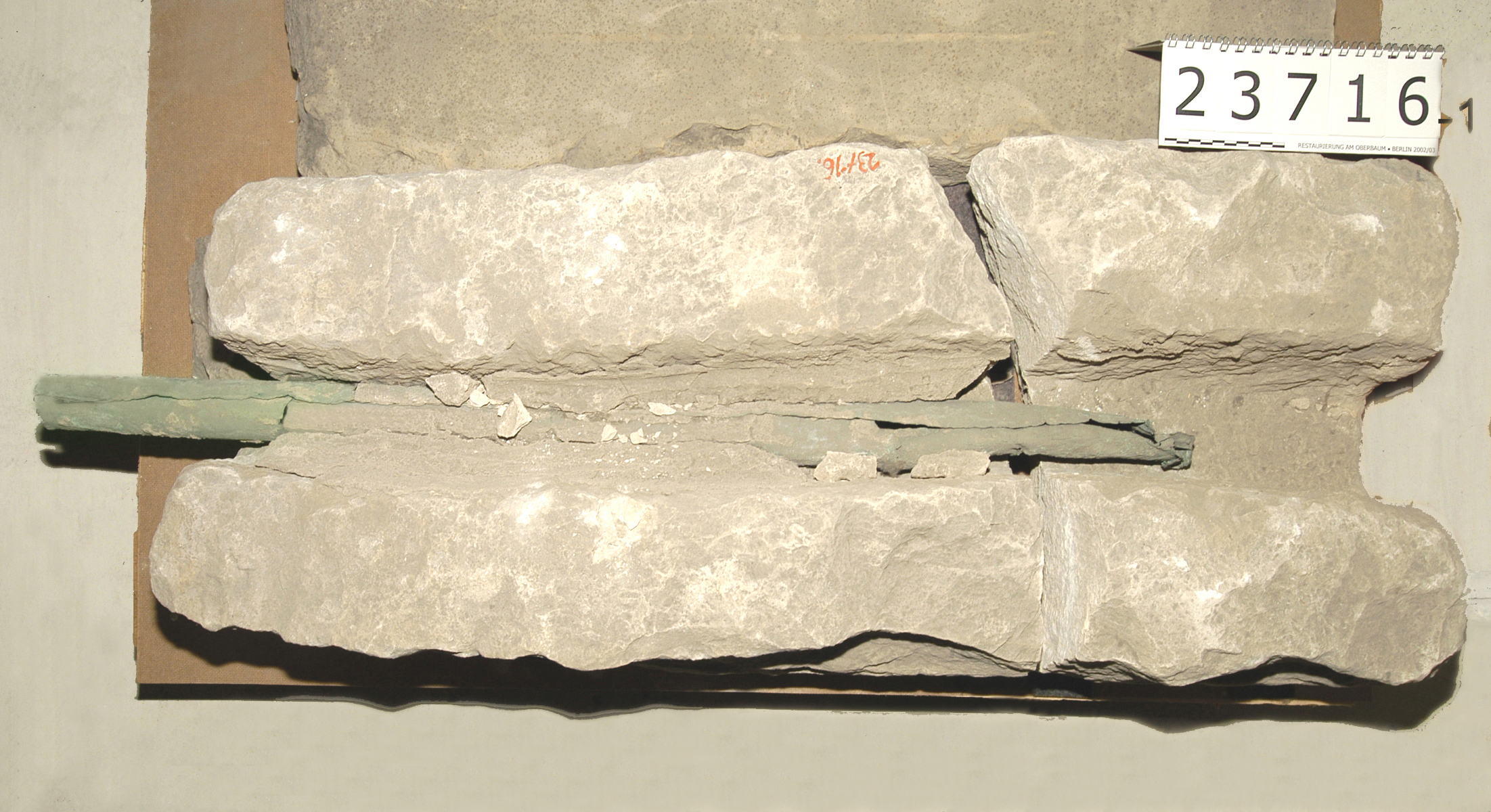 Copper pipe found in Abu Sir in the solar temple of the Pharaoh Sahouré - IVth dynasty.